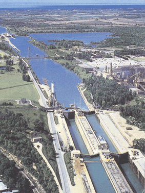 Aerial view of the Welland Canal.